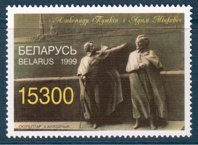 Stamp of Belarus. Birth Bicentenary of A.S.Pushkin